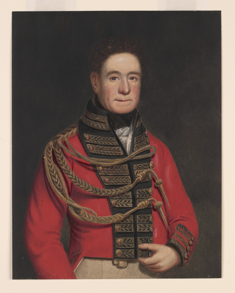 Portrait of Major General Lachlan Macquarie by the Australian artist Arthur Levett Jackson (1834-1888). Painted in 1874